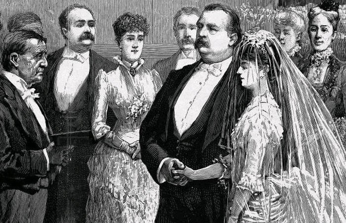 Drawing of President Grover Cleveland's and Frances Folsom's wedding, 2 June 1886, in the Executive Mansion (White House), Washington, D.C.